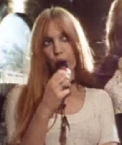 Gillian Hills in a public domain film trailer